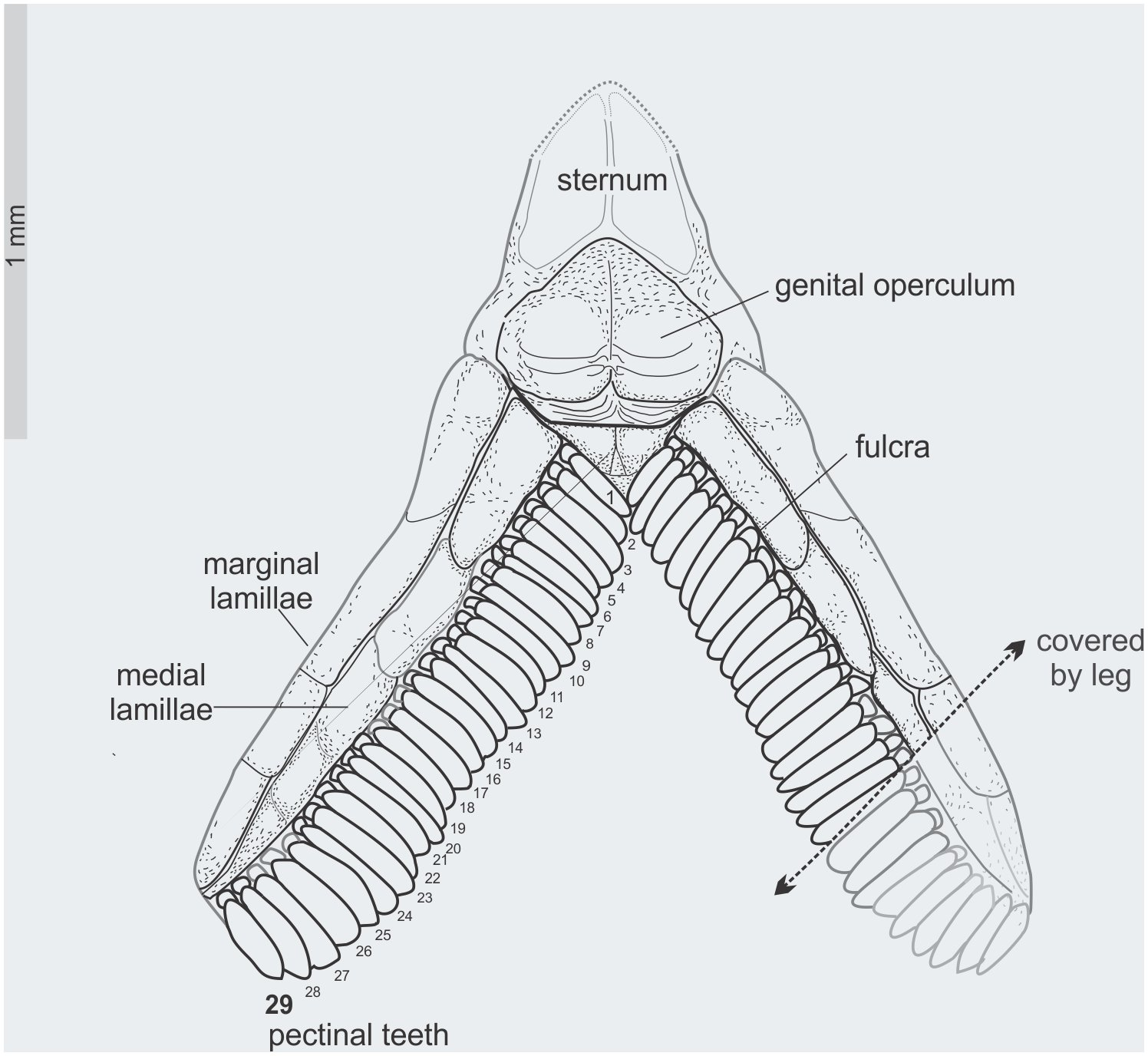 Fig 6. Tityus apozonalli sp. nov. Schematic reconstruction of sternum and pectines showing fulcra and the number of pectinal teeth, punted arrow indicate the partially visible portion as covered by leg.